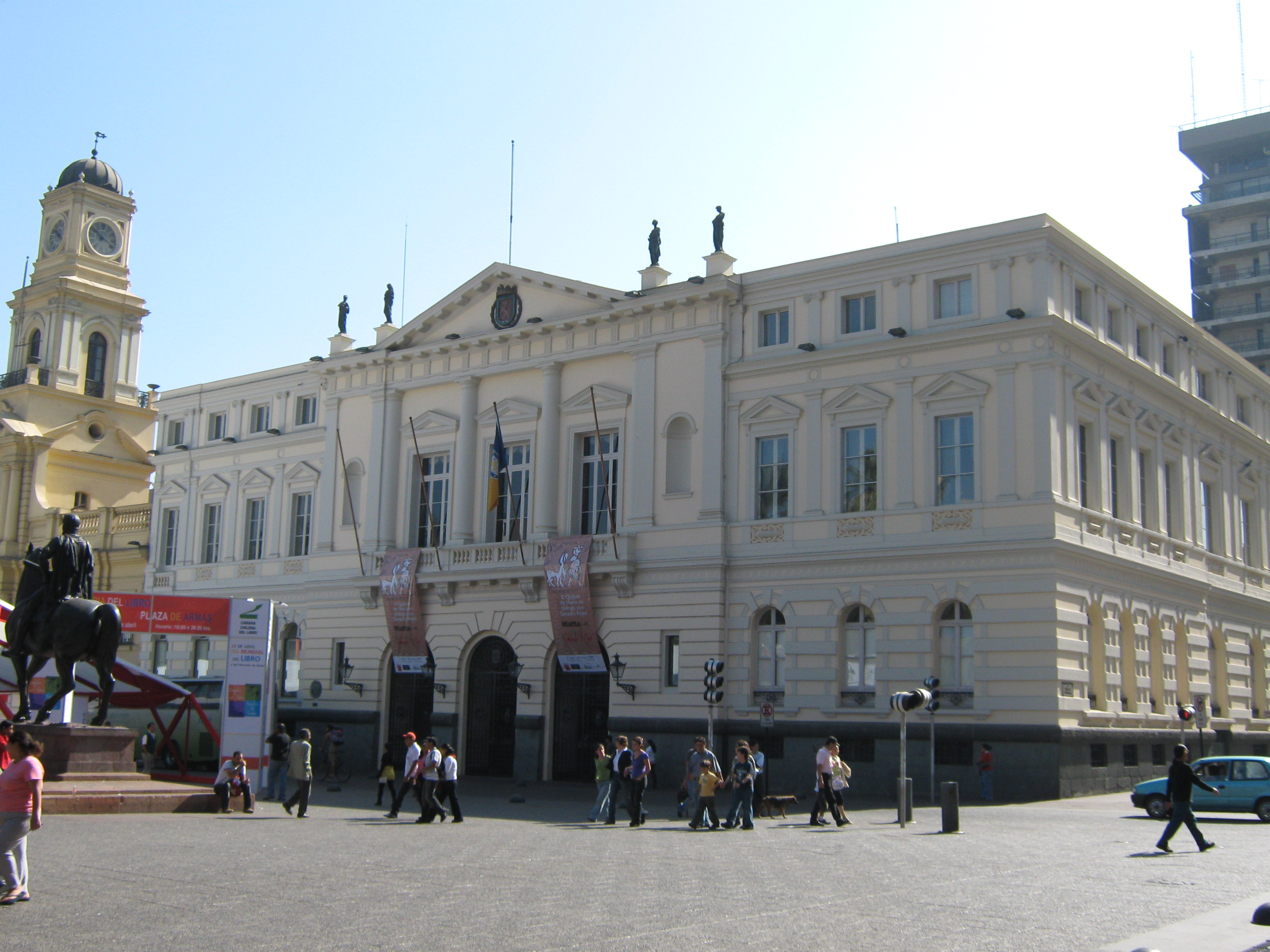 Historical National Museum left of Municipality of Santiago, Puente Street view